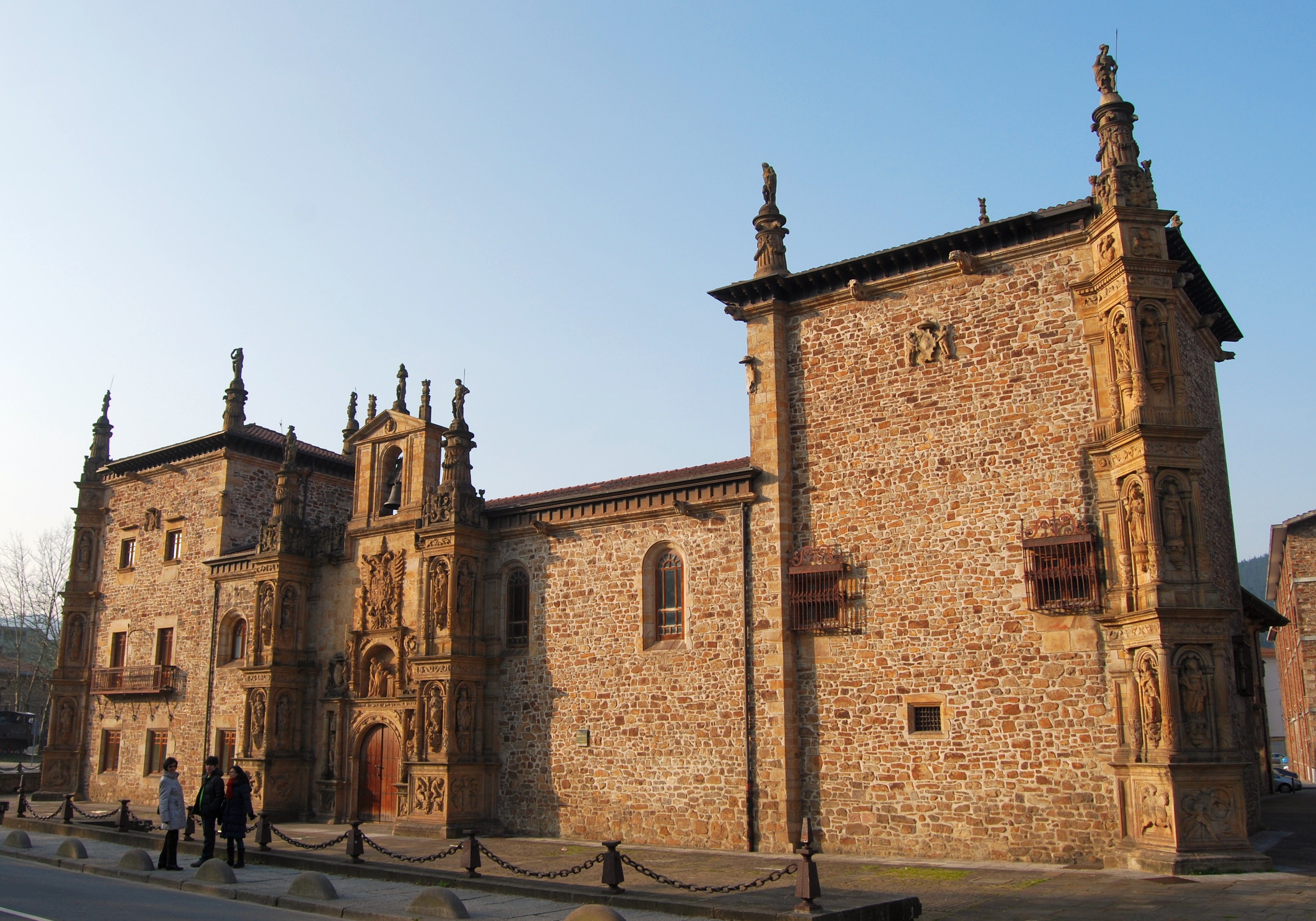 University Sancti Spiritus, Oñati (main facade)